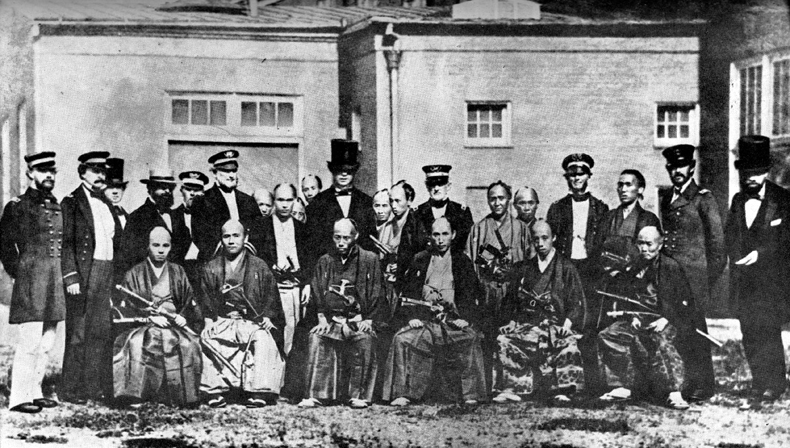 The 1860 Japanese Mission to the United States.